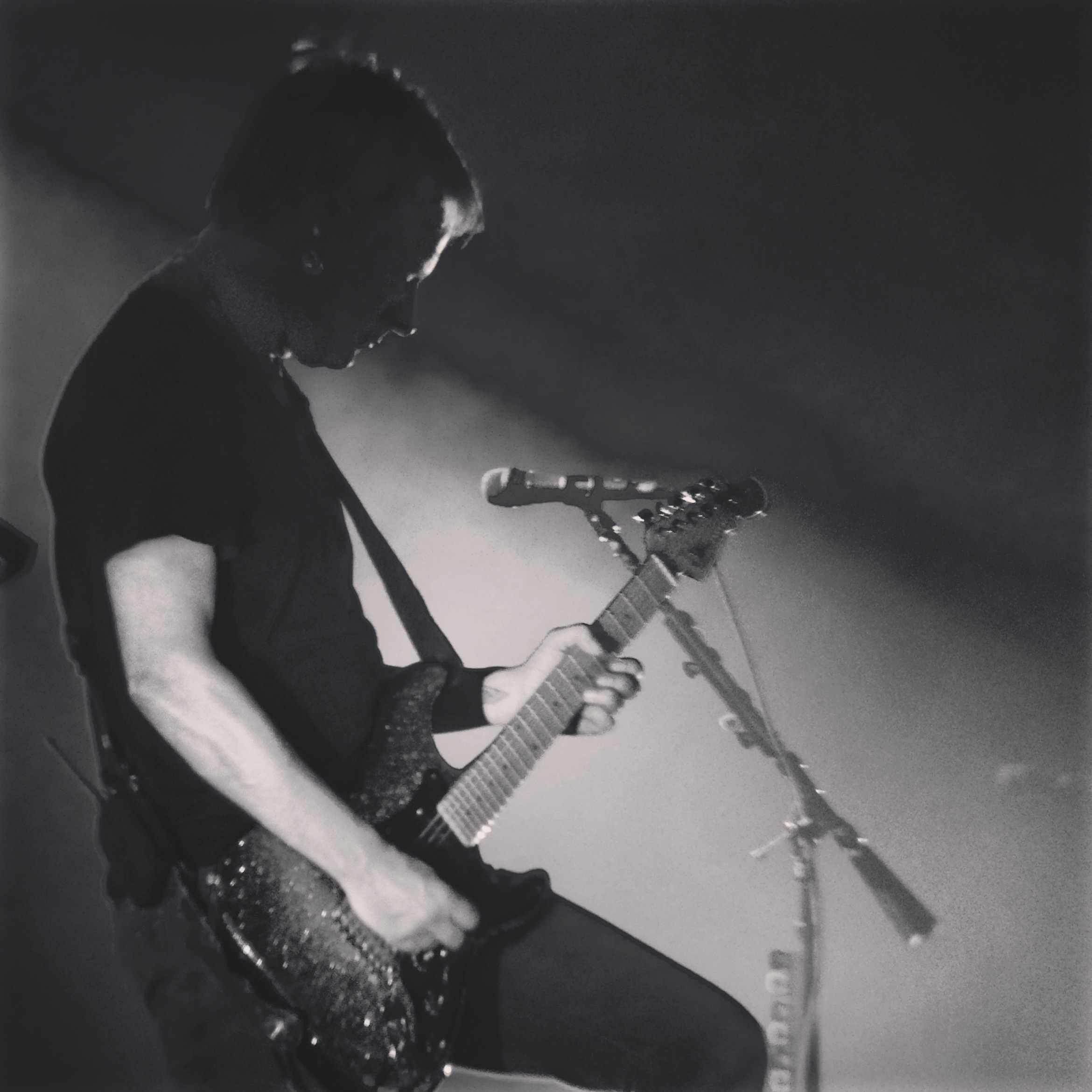 Jerry Cantrell live at 2013